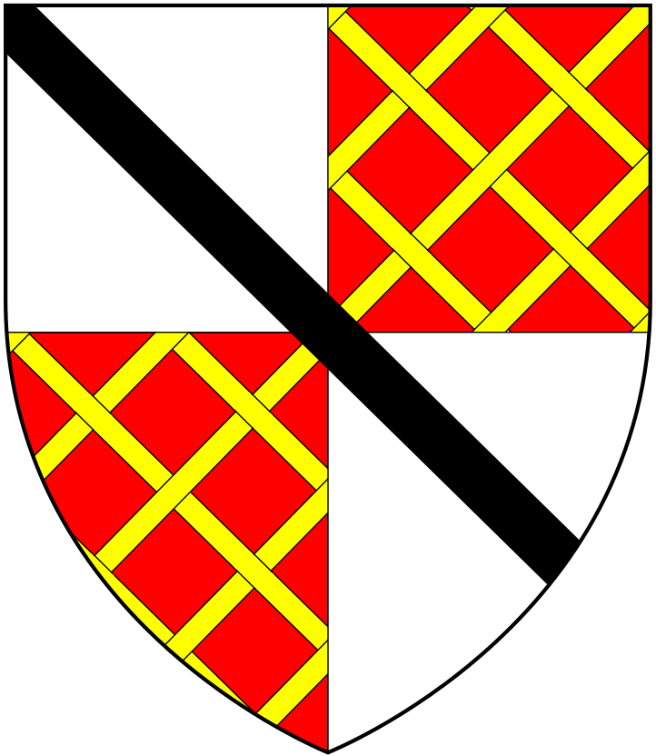 Arms of Despencer: Quarterly 1st & 4th: Argent; 2nd & 3rd: Gules fretty or, over all a ribbon sable. Image based on arms depicted on seal of Hugh le Despencer, 2nd Baron le Despencer (1308–1349), Lord of Glamorgan, National Library of Wales NLW Penrice and Margam Deeds 212 (seal 1) front formerly attached to his 1338 charter, see George Thomas Clark, Cartae et Alia Munimenta Quae ad Dominium de Glamorgancia Pertinent, Vol.4, Cardiff, 1910, Charter no. DCCCCLXVIII, pp.1213-18, "INSPEXIMUS BY HUGH LE DESPENSER (son and heir of Hugh le Despenser and Alianora de Clare his wife), OF CERTAIN CHARTERS TO MARGAM ABBEY. [1][2]